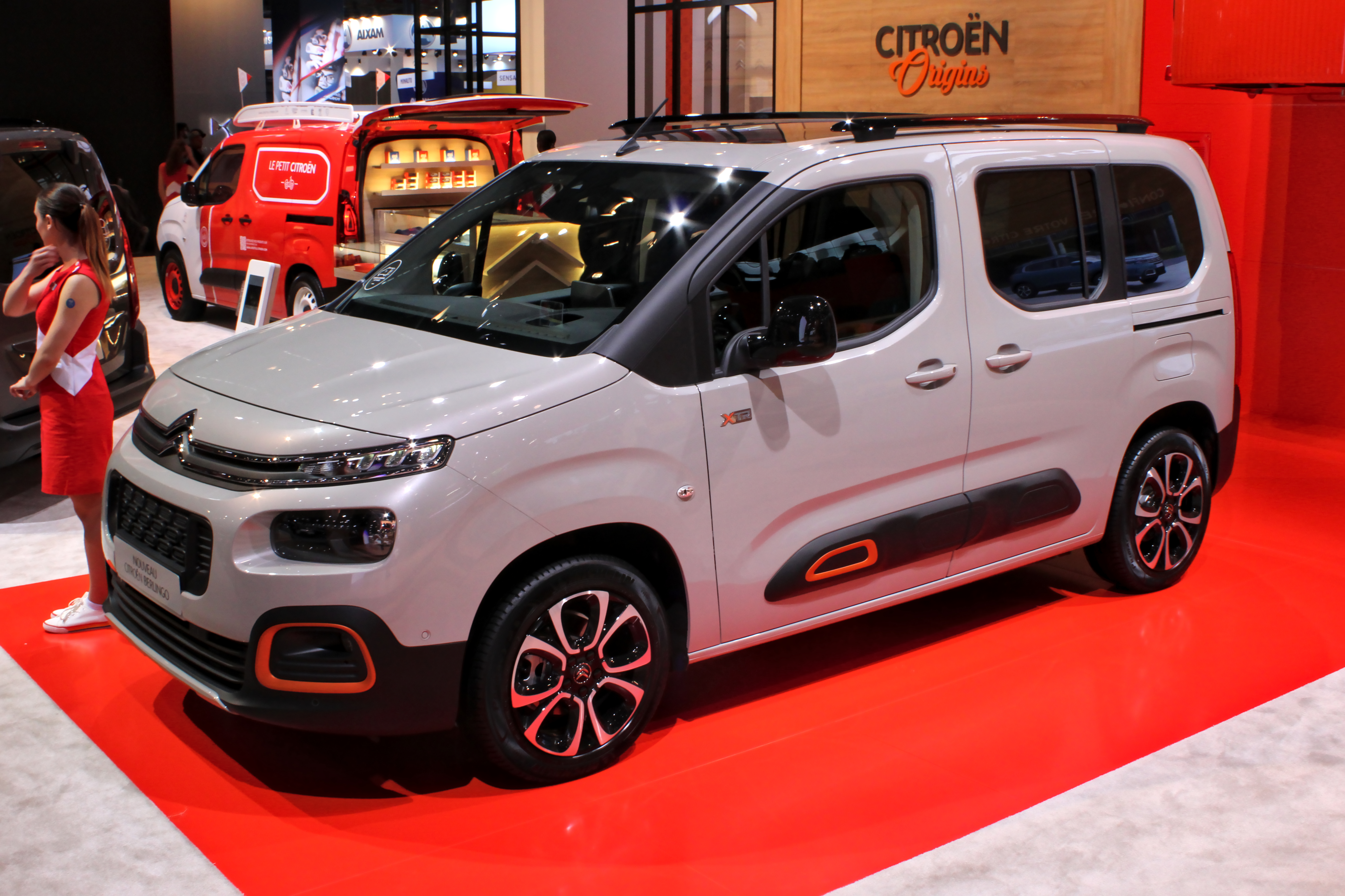 Citroen Berlingo at Paris Motor Show 2018